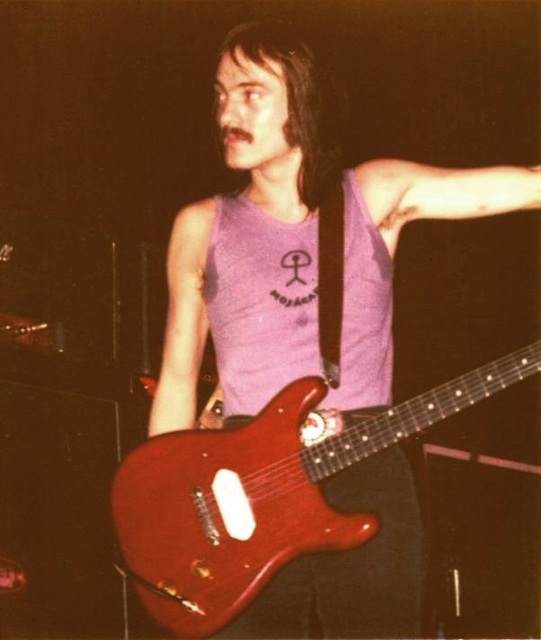 Steve Marriott with Humble Pie onstage in 1972